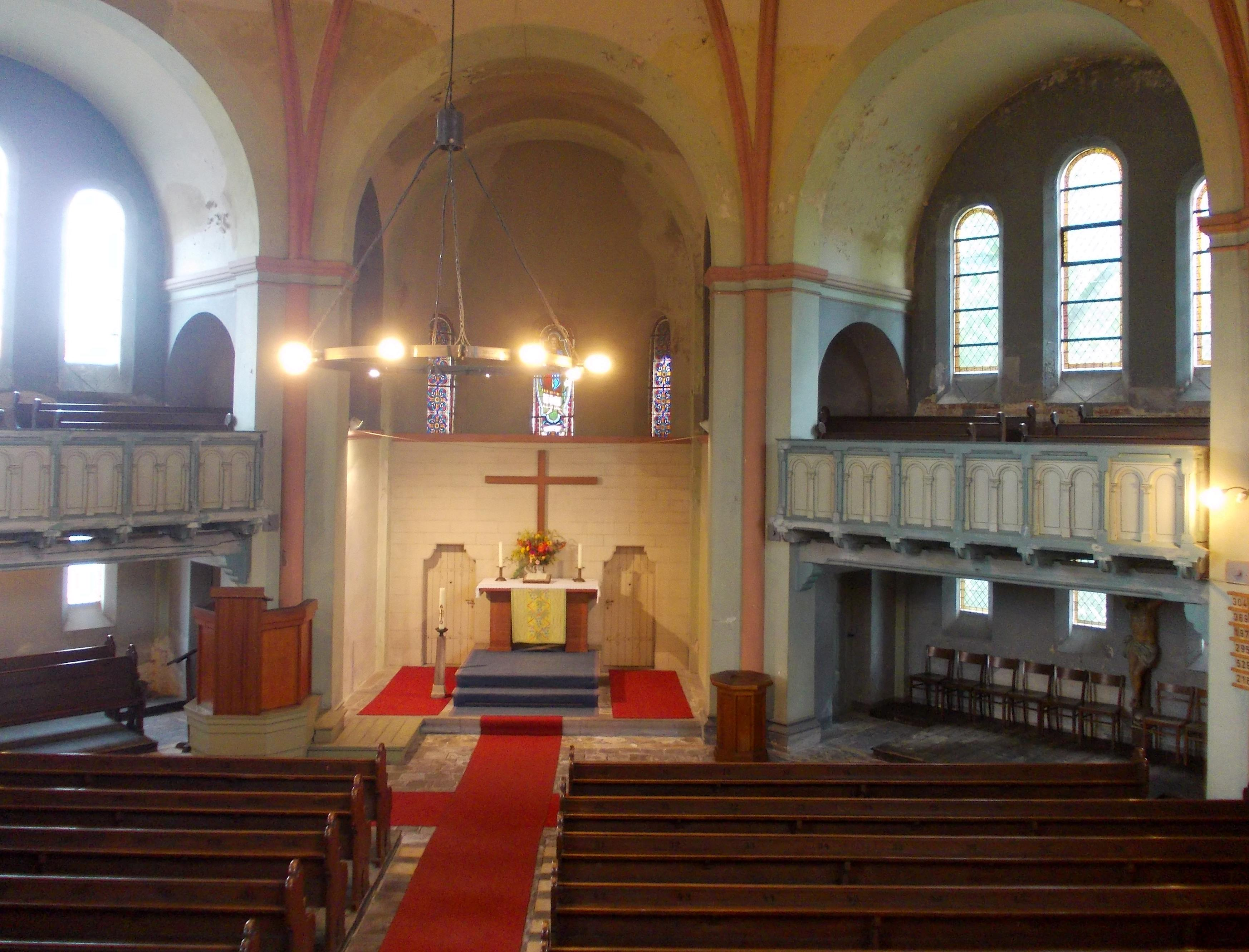 Nietleben church (Halle/Saale, Saxony-Anhalt)